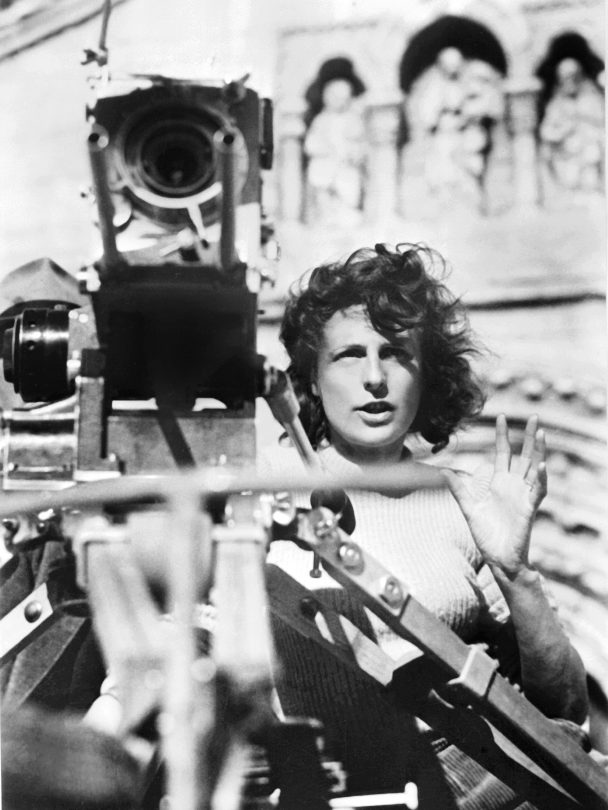 Leni Riefenstahl at shootings for the film 'Lowlands'